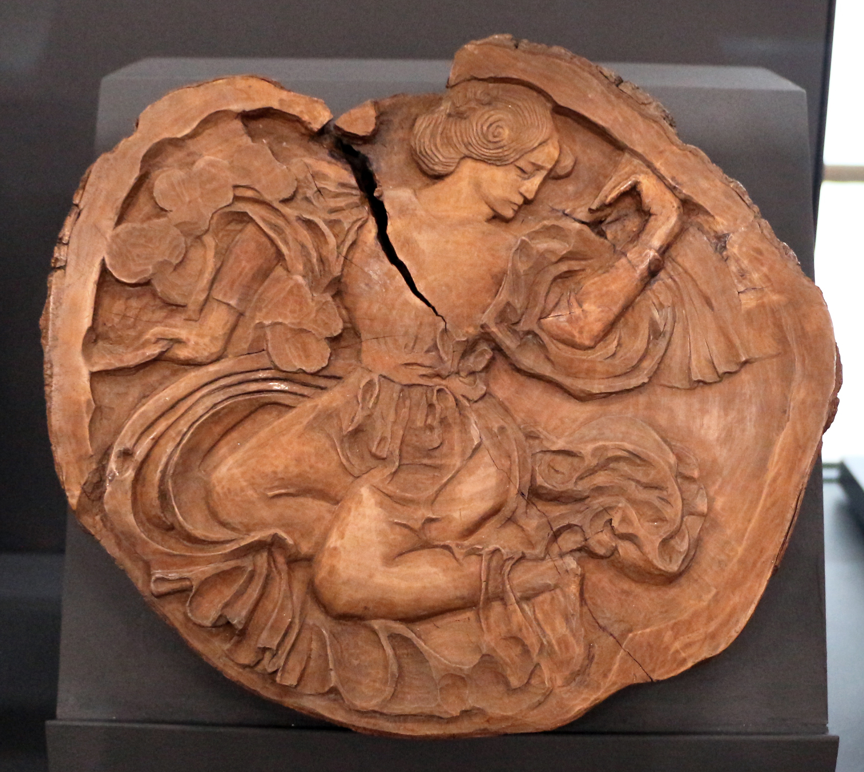 Sculptures by Aristide Maillol - Musée d'Orsay